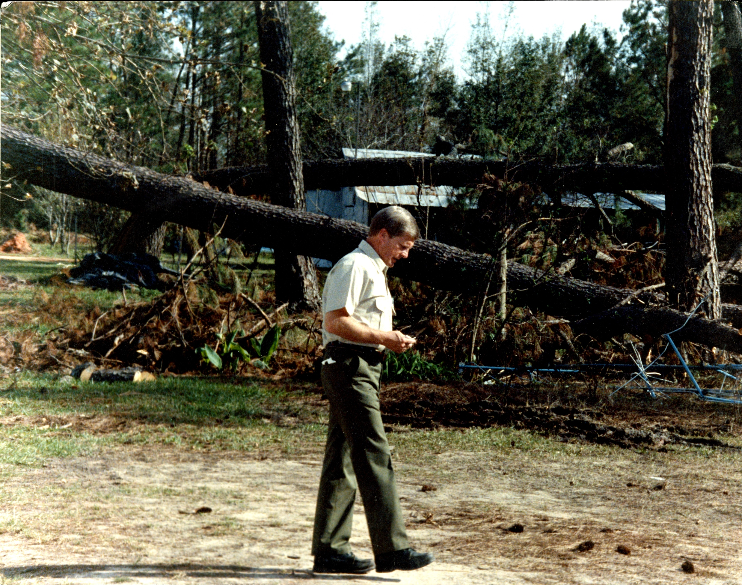 Governor Carroll Campbell tours the wreckage left behind by Hurricane Hugo.